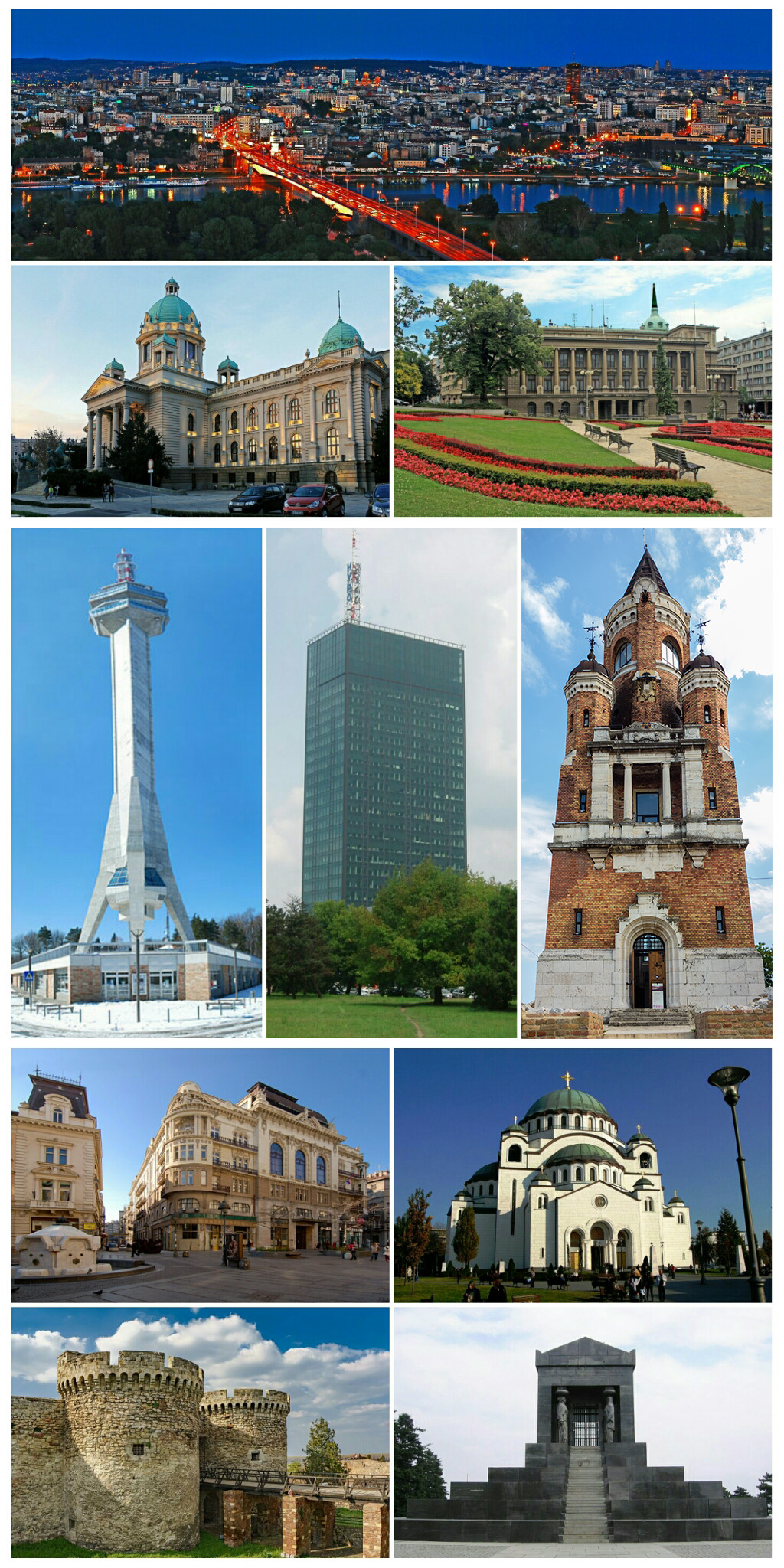 Belgrade- photomontage (Panorama of Belgrade, House of the National Assembly, New Palace, Avala Tower, Ušće Tower, Gardoš Tower, The Serbian Academy of Sciences and Arts' building, Church of Saint Sava, Belgrade Fortress, Monument to the Unknown Hero)